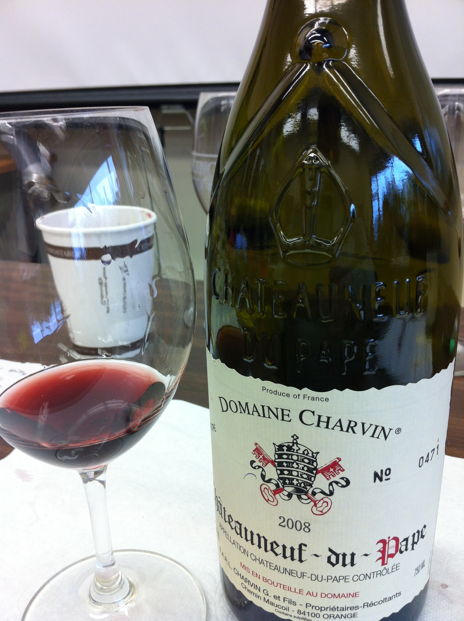 French Chateuneuf du Pape wine from the southern Rhone